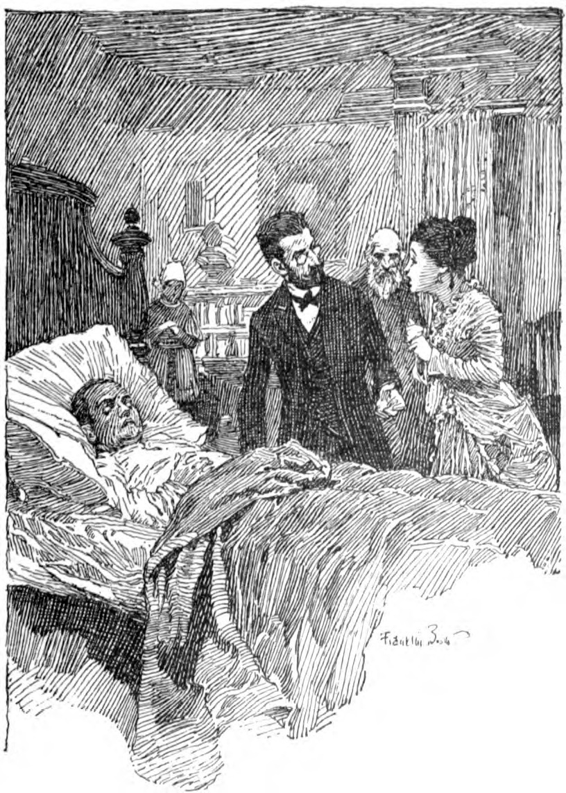 Illustration from Apukhtin's novel From Death to Life, published by R.Frank, NY, 1917